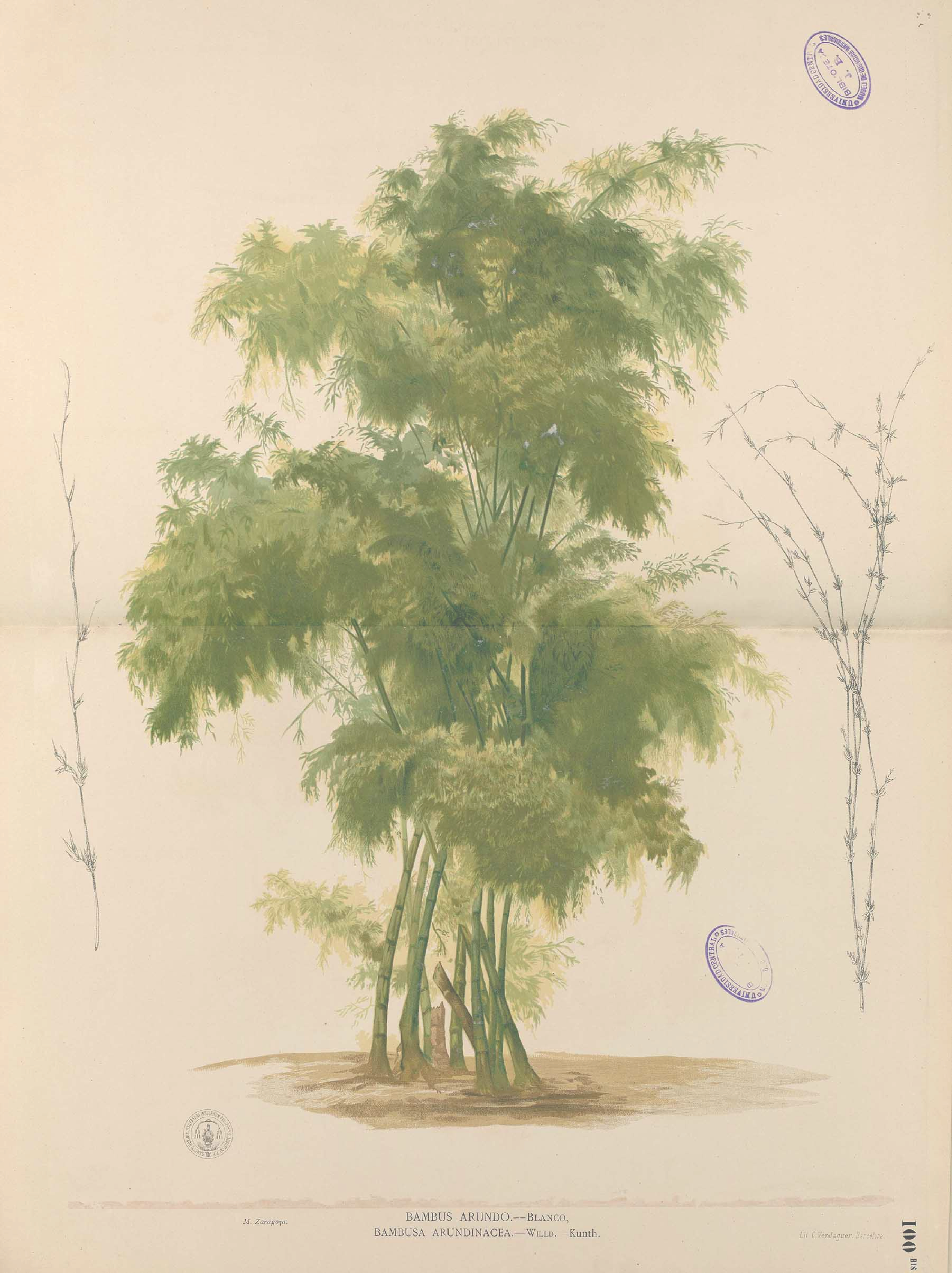 Plate from book